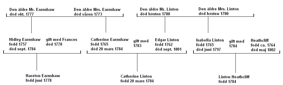 A family tree of the Earnshaws and Lintons as described in Emily Brontë's "Wuthering Heights". (In Swedish)